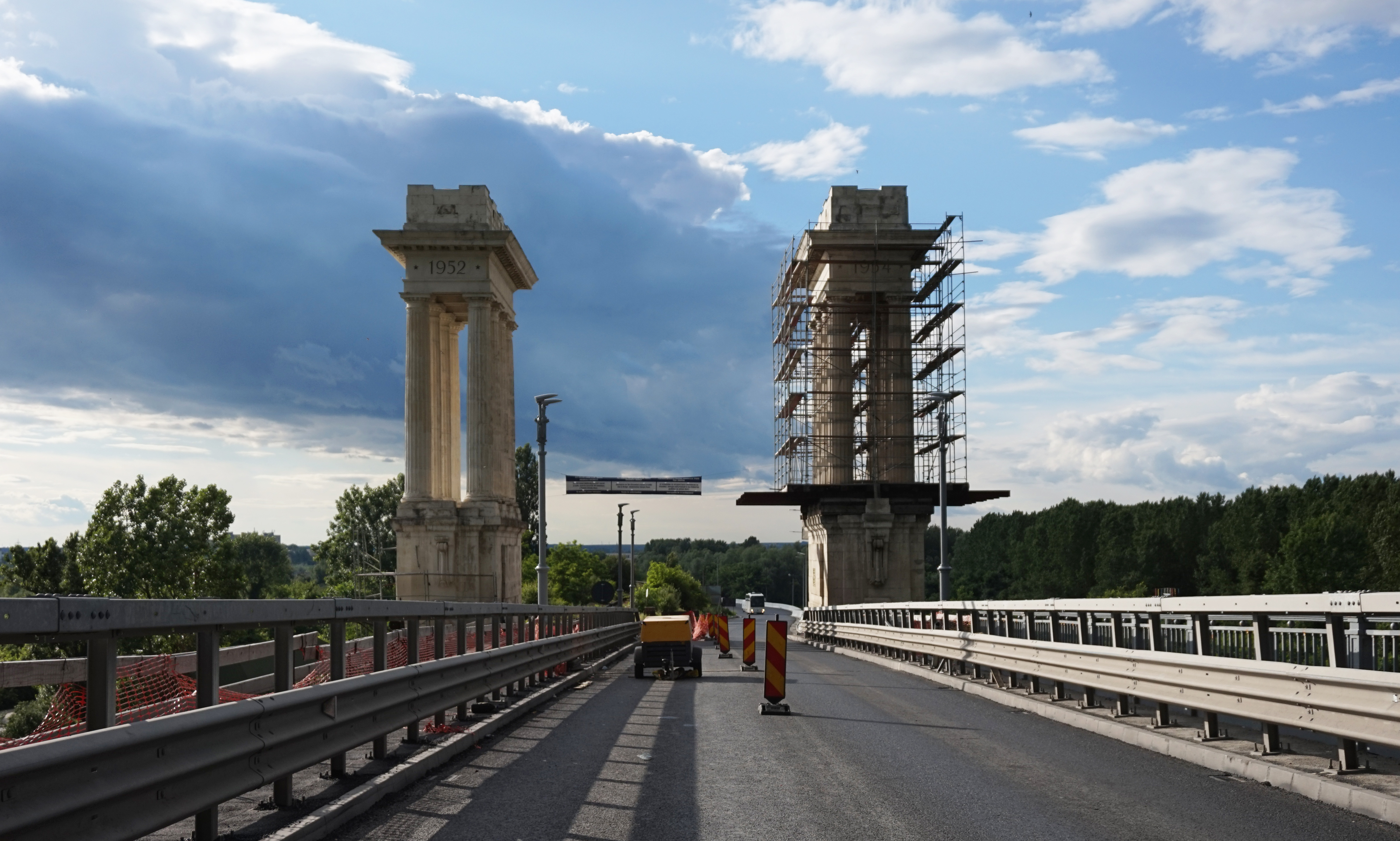 Friendship Bridge under construction. This photograph was taken with a Sony Alpha a5000.